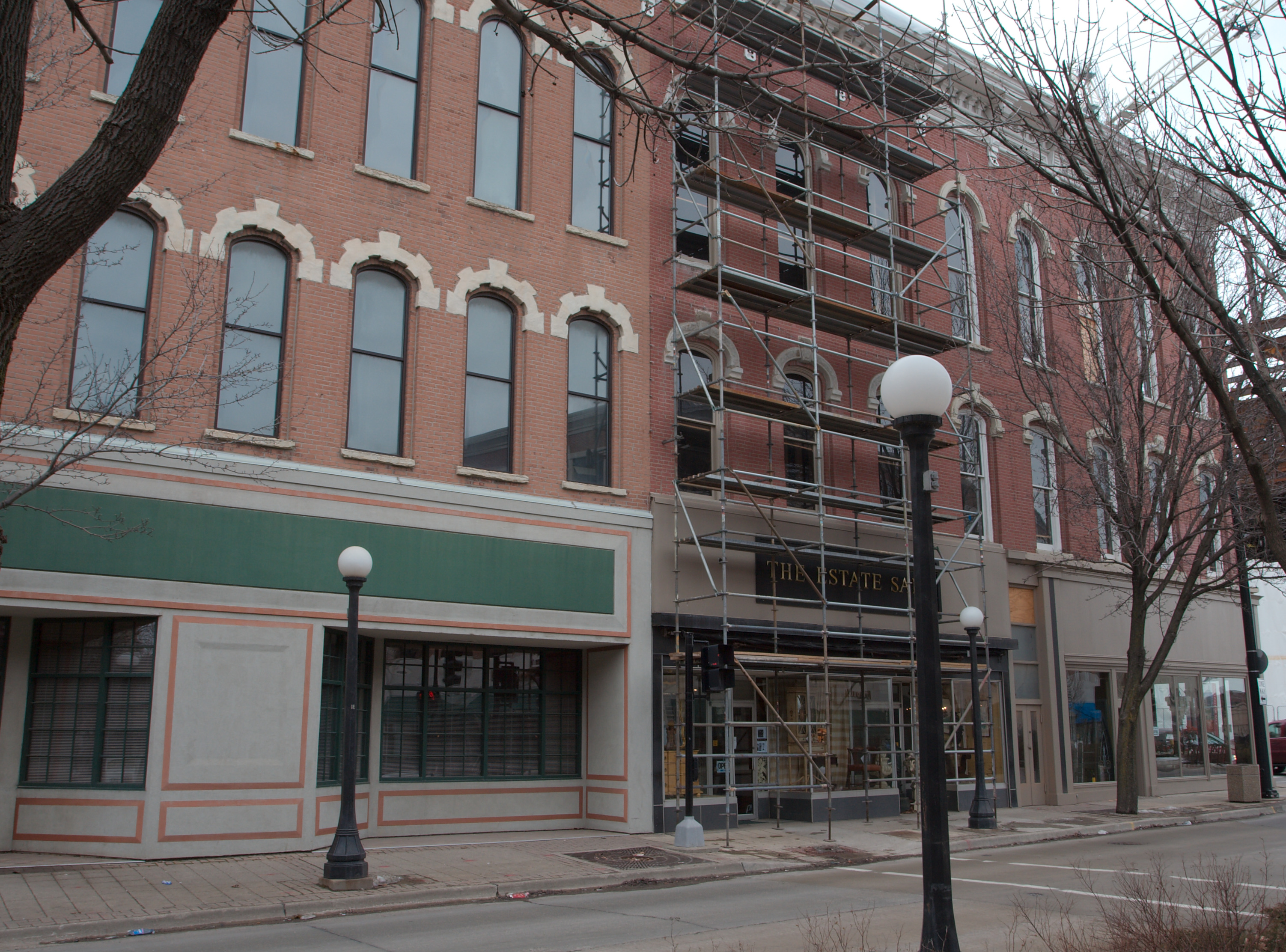 Champaign, IL Bailey--Rug Building (added 1997 - Building - #97001337) Also known as Hamilton Building 219-225 N. Neil St., Champaign Historic Significance: Architecture/Engineering Architectural Style: Italianate Area of Significance: Architecture Period of Significance: 1850-1874 Owner: Private Historic Function: Commerce/Trade, Social Historic Sub-function: Meeting Hall, Specialty Store Current Function: Commerce/Trade Current Sub-function: Specialty Store